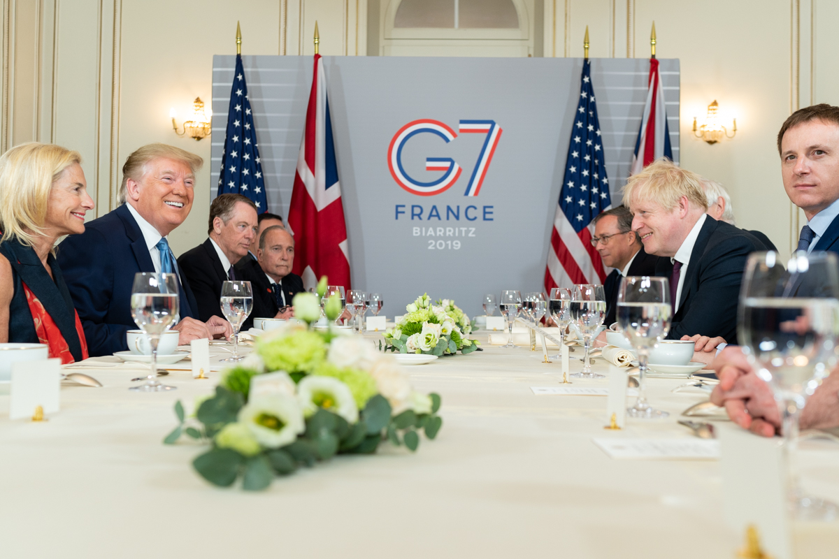 President Donald J. Trump and British Prime Minister Boris Johnson, joined by members of their delegations, participate in working breakfast meeting Sunday, Aug. 25, 2019, at Hotel du Palais Biarritz in Biarritz, France, site of the G7 Summit. (Official White House Photo by Shealah Craighead)